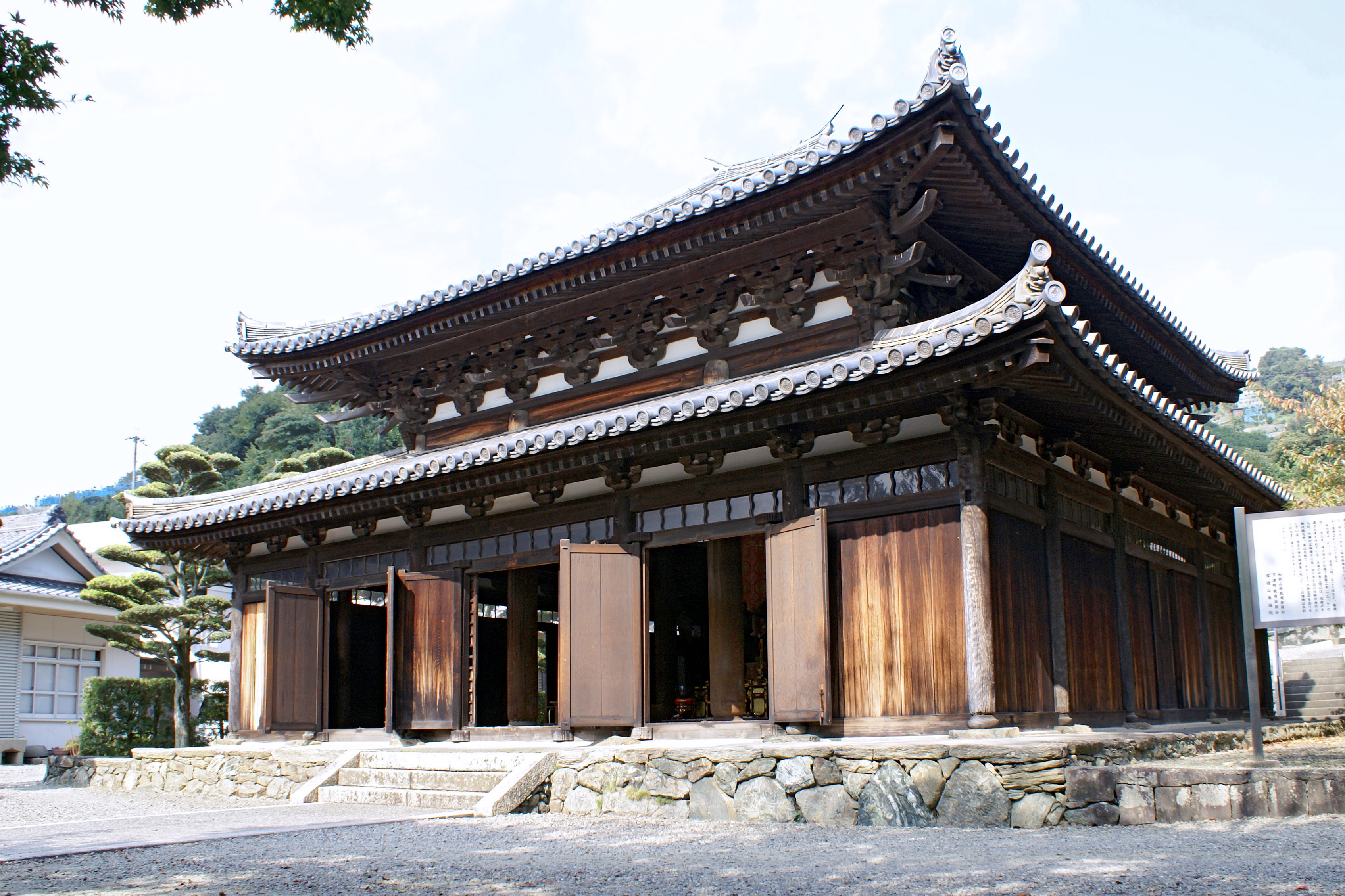 Zenpukuin Shakado (Japan's National Treasure) in Kainan, Wakayama prefecture, Japan It was built in 1327.